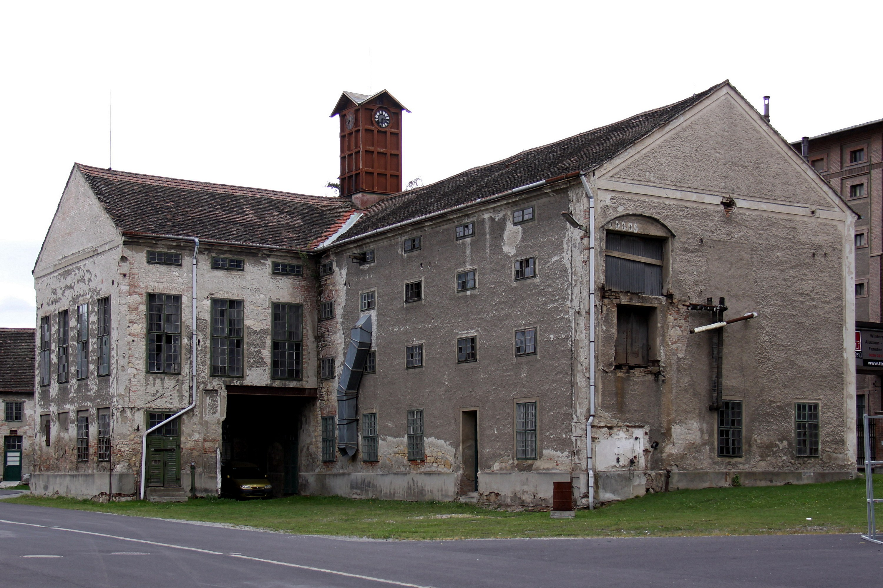 Former sugar refinery - Siegendorf. Object location47° 46′ 10.07″ N, 16° 31′ 51.41″ E